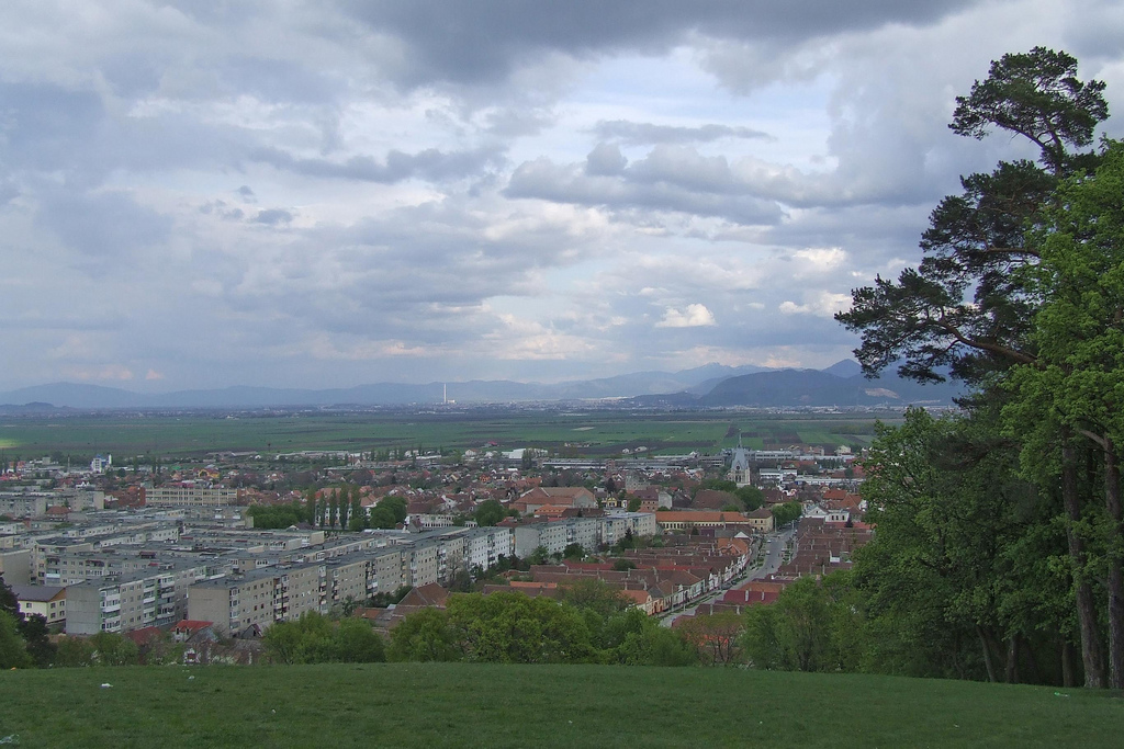 Codlea